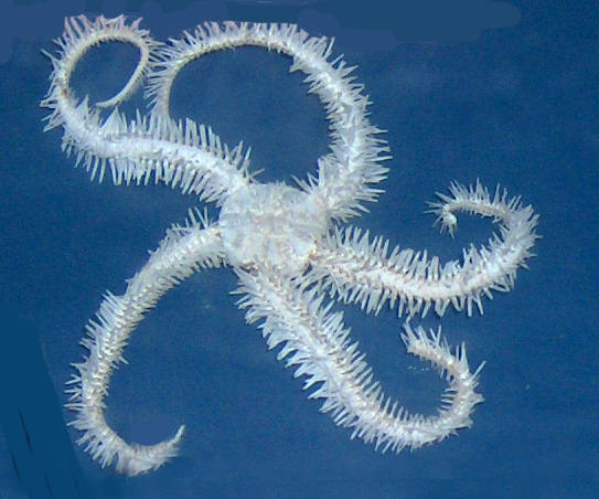 Ophiothrix fragilis, common brittlestar, belonging to the family Ophiotrichidae